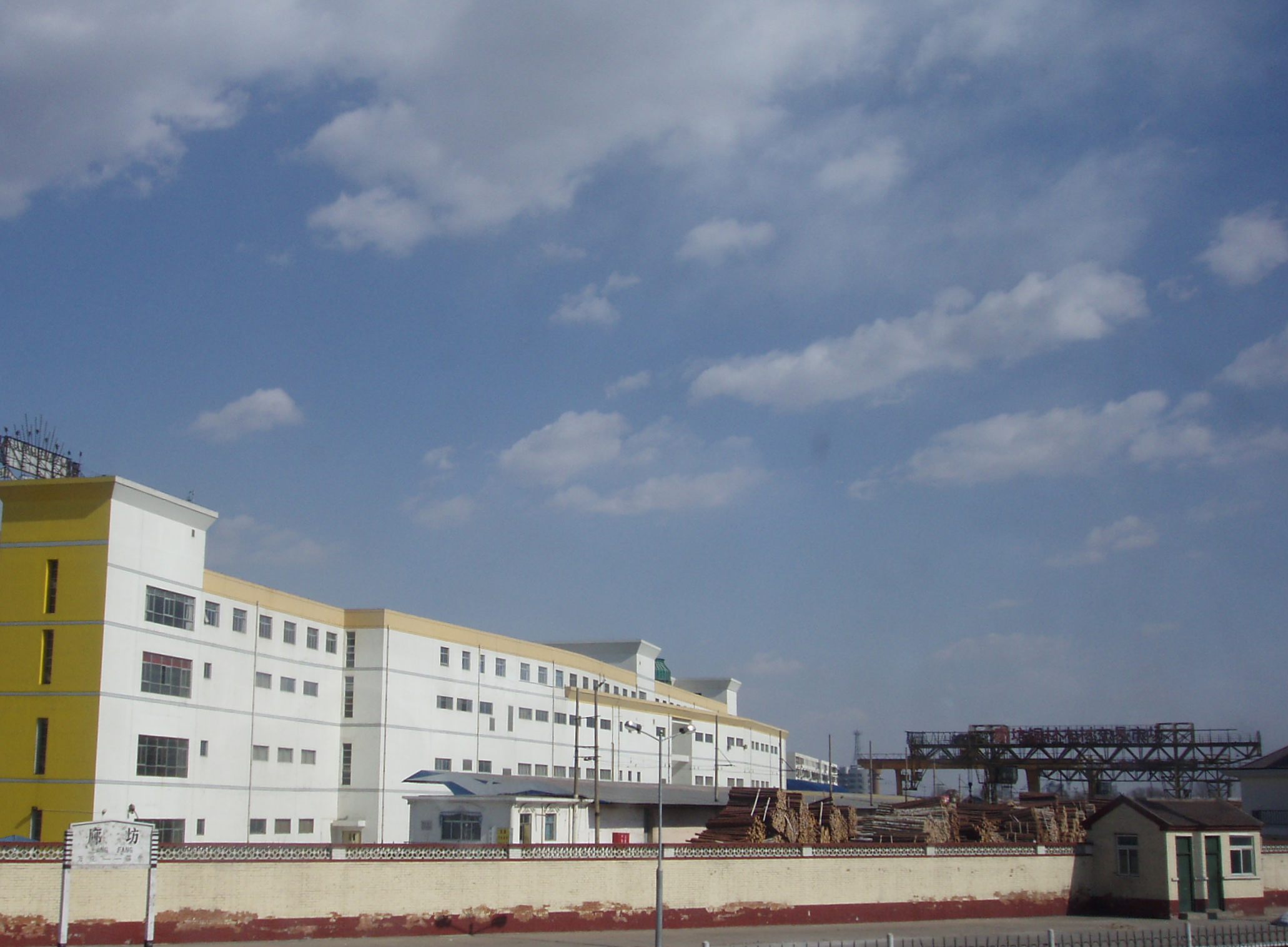 Langfang City, Hebei Province, China